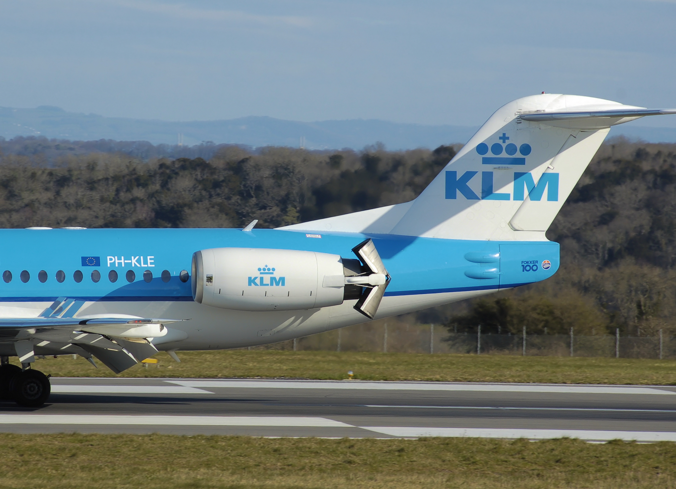 KLM Fokker 100 (PH-KLE) taxis after landing at Bristol International Airport, England.